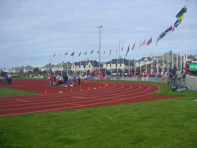 Athletics Track, Clickimin. Photographed during 'Inter Island Games' note flags from all the individual islands taking part.